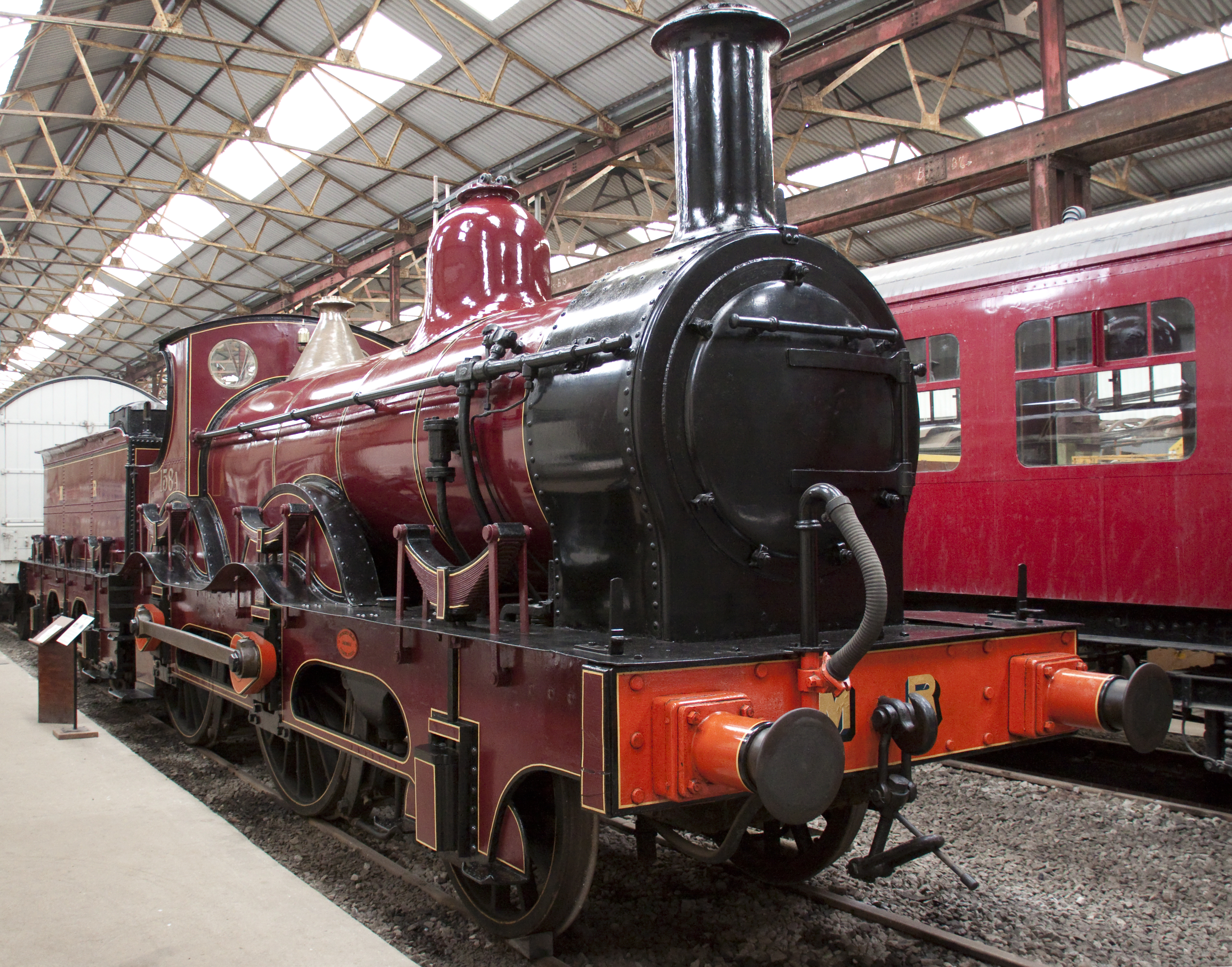 This is the oldest surviving Midland Railway Locomotive. Built at Derby in 1866